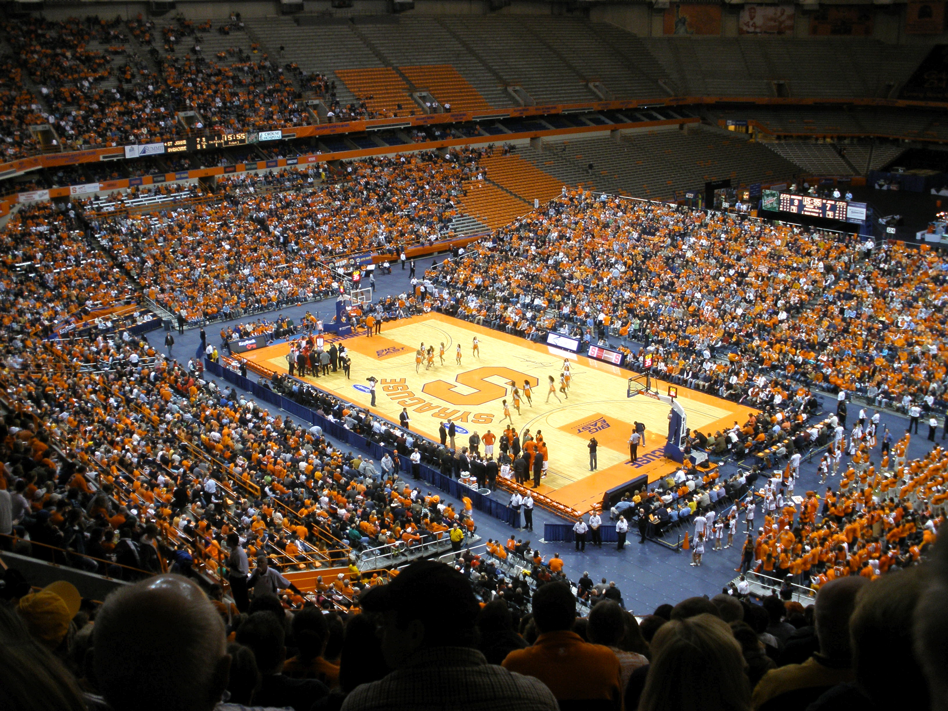 View of the Carrier Dome in its basketball configuration. View from Section 307, Row U.